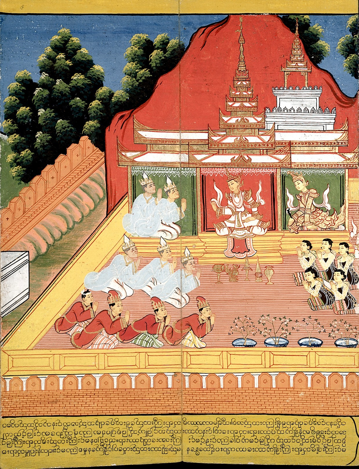 King Suddhodana, with Queen Maha-Maya on his left, asks brahmins to interpret the Queen's dream. They predict that the child conceived will become either a Universal Monarch or a Buddha. Identifier Cropped from (Left) King Suddhodana asks brahmins to intertret the Queen's Wellcome L0030754.jpg